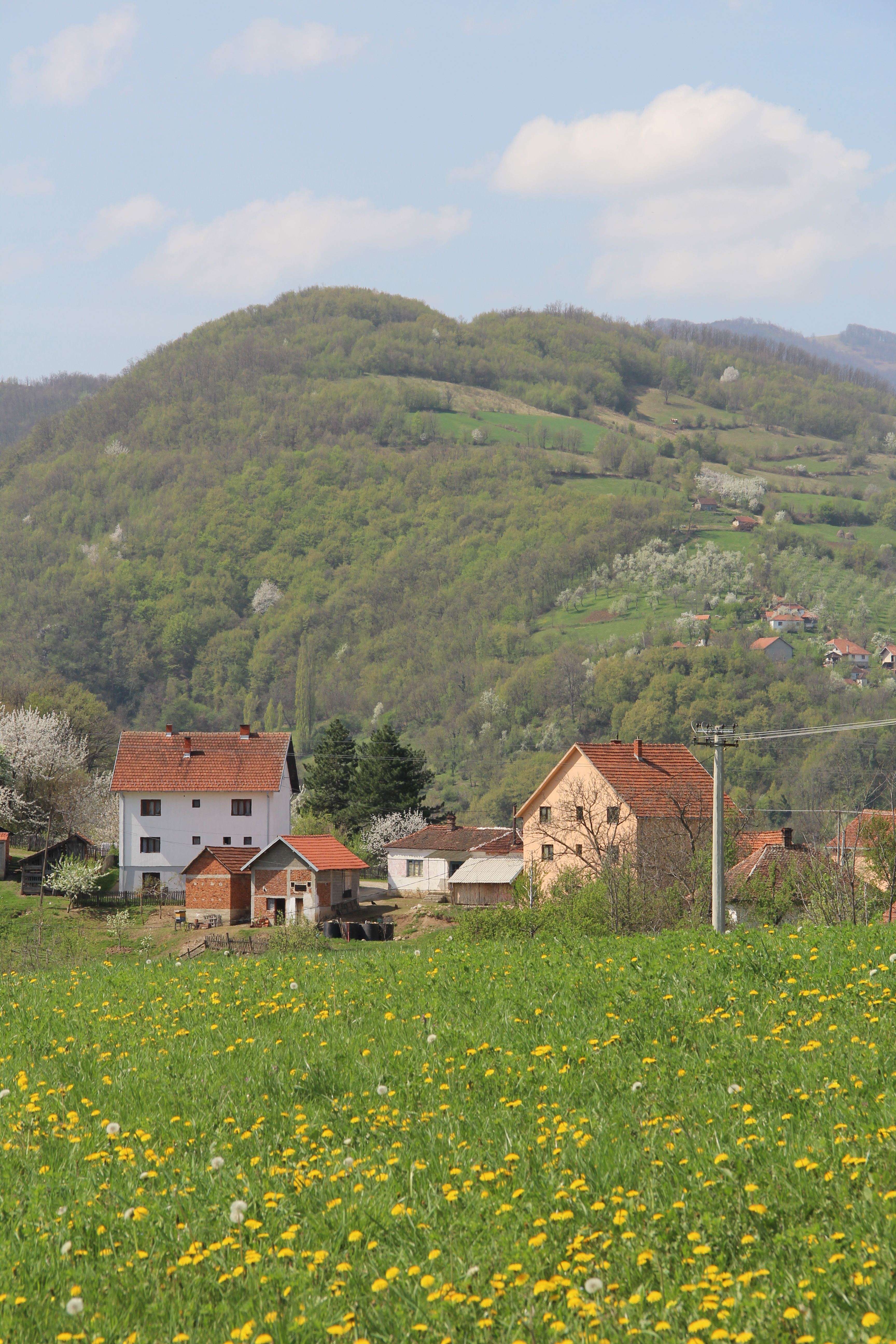 Tubravic village - Municipality of Valjevo - Western Serbia - Panorama 14